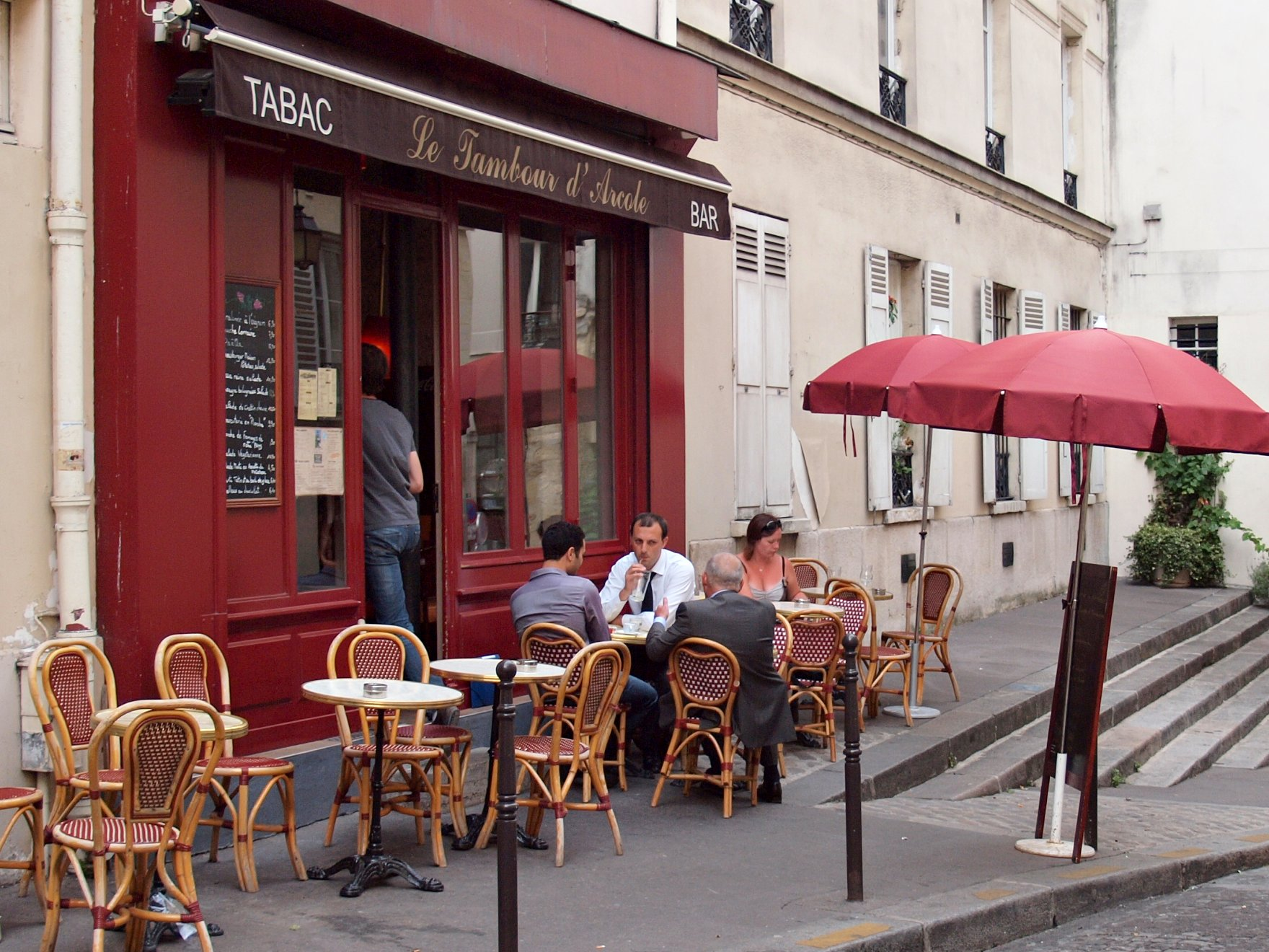 lunchtime drinks in the bar tabac, paris france